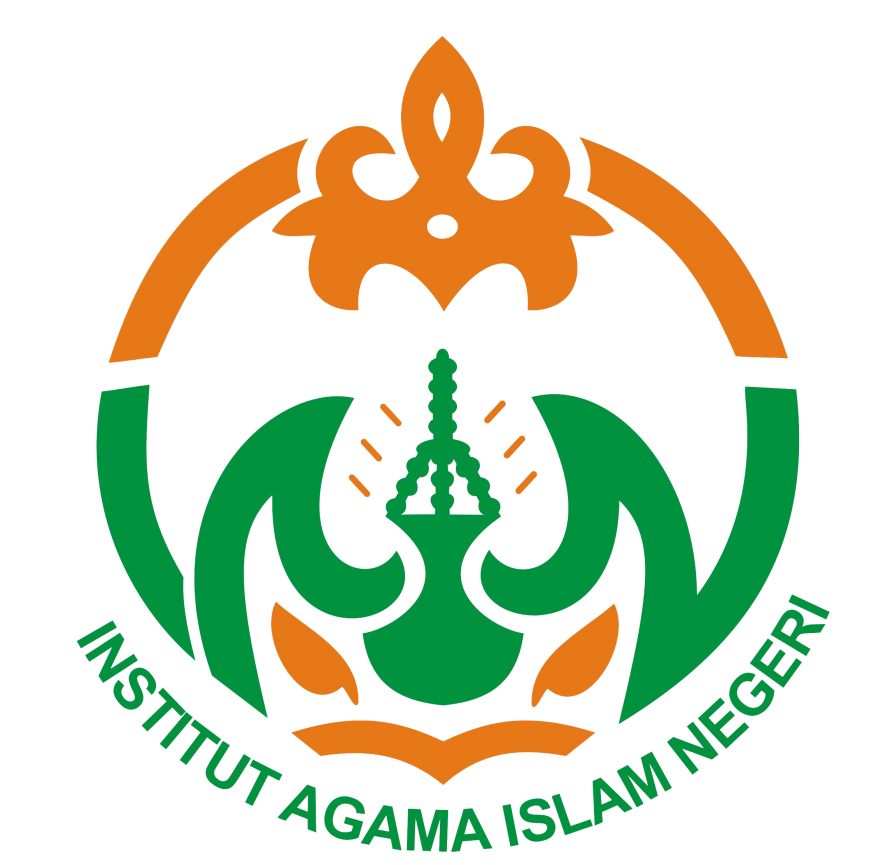 This is a logo owned by IAIN Lhokseumawe for IAIN Lhokseumawe